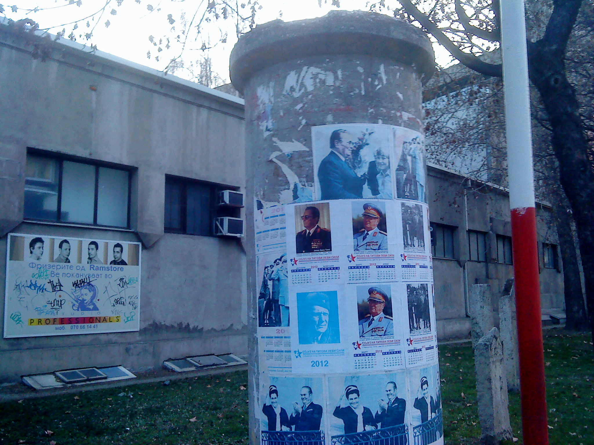 Tito's fan club in Skopje